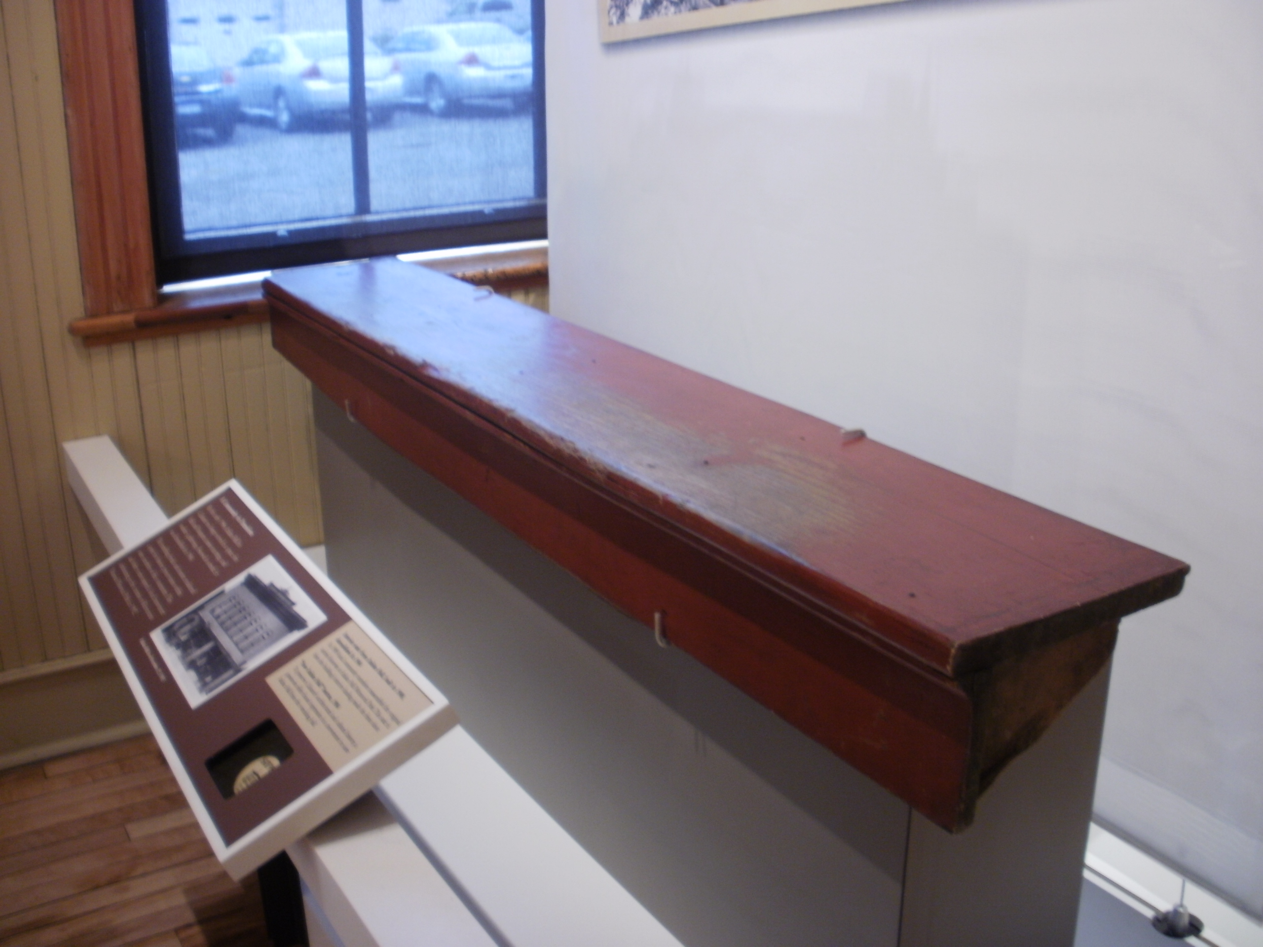 A step from the main stairway of Italian Hall on display at the visitor center of the Keweenaw National Historical Park. About the step, the display in front states "This stair is from the building's interior landing inside the front door"